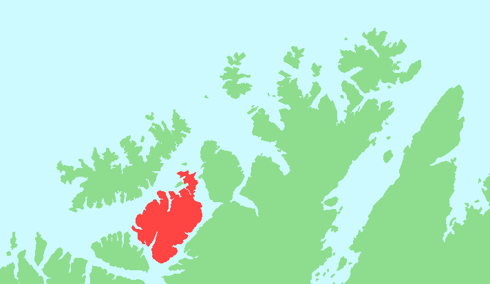 Locator map of Seiland, Finnmark, Norway